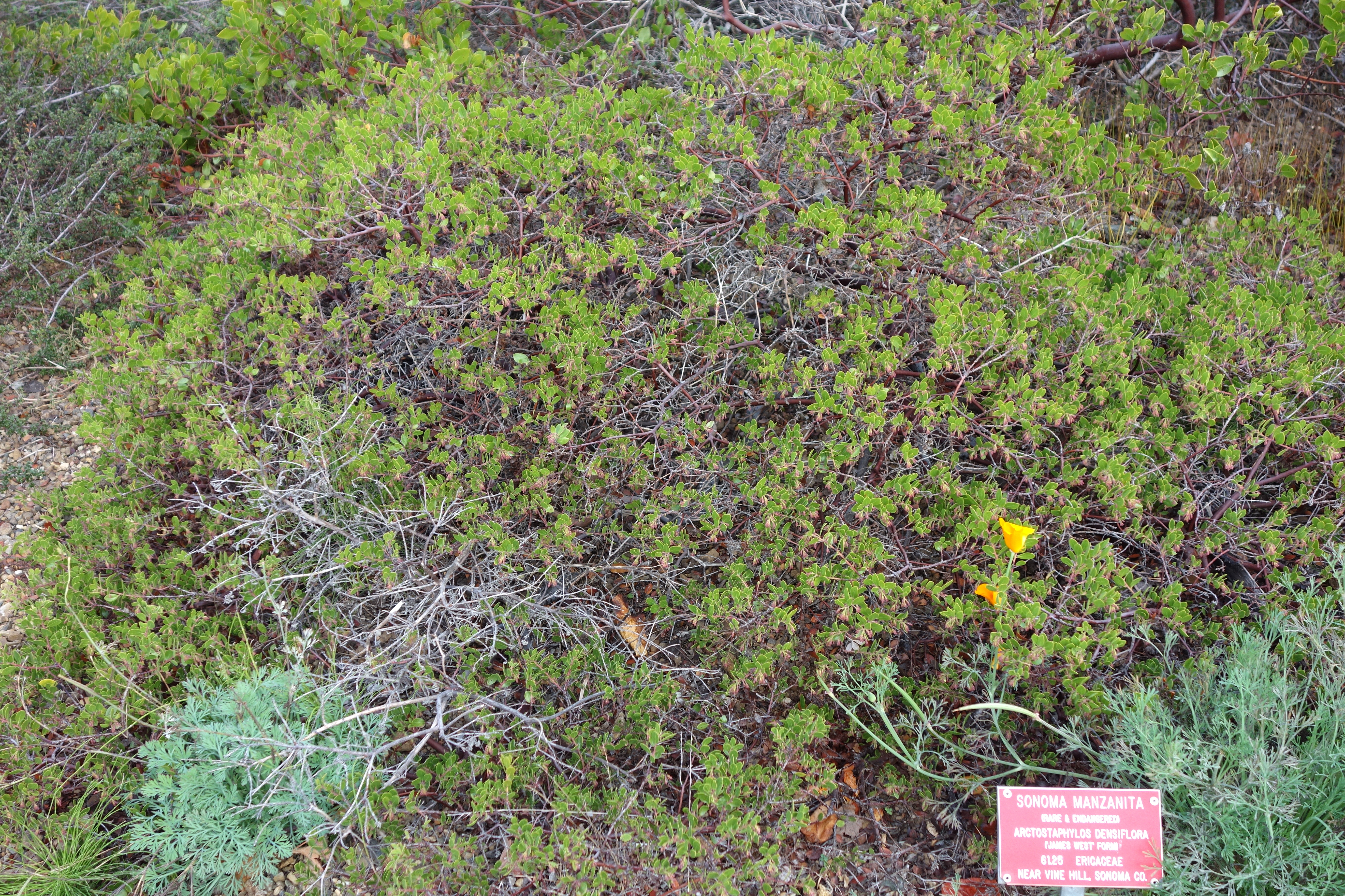 Botanical specimen in the Regional Parks Botanic Garden, Berkeley, California, USA.